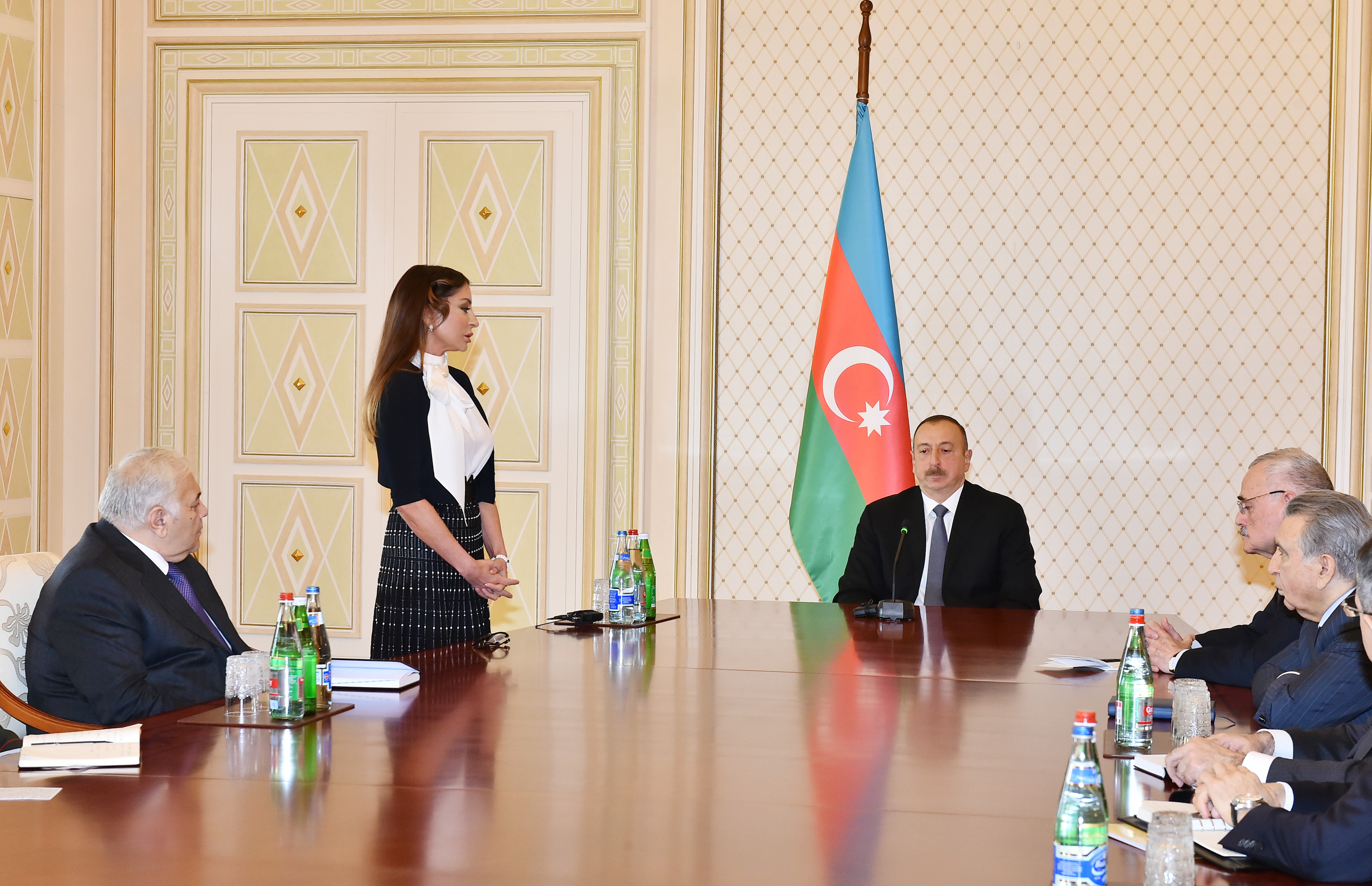 Meeting of Security Council under chairmanship of Ilham Aliyev was held